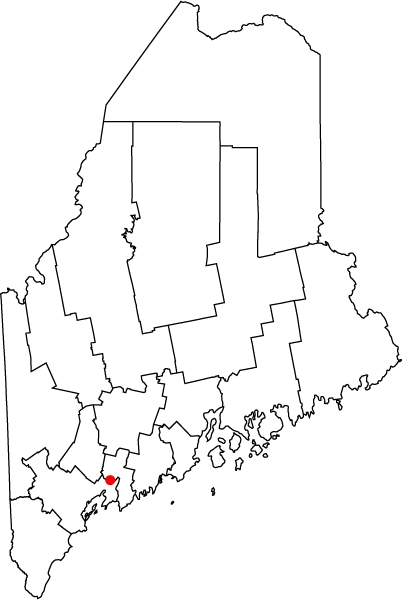 Map of the state of Maine with County Outlines, highlighting Topsham.